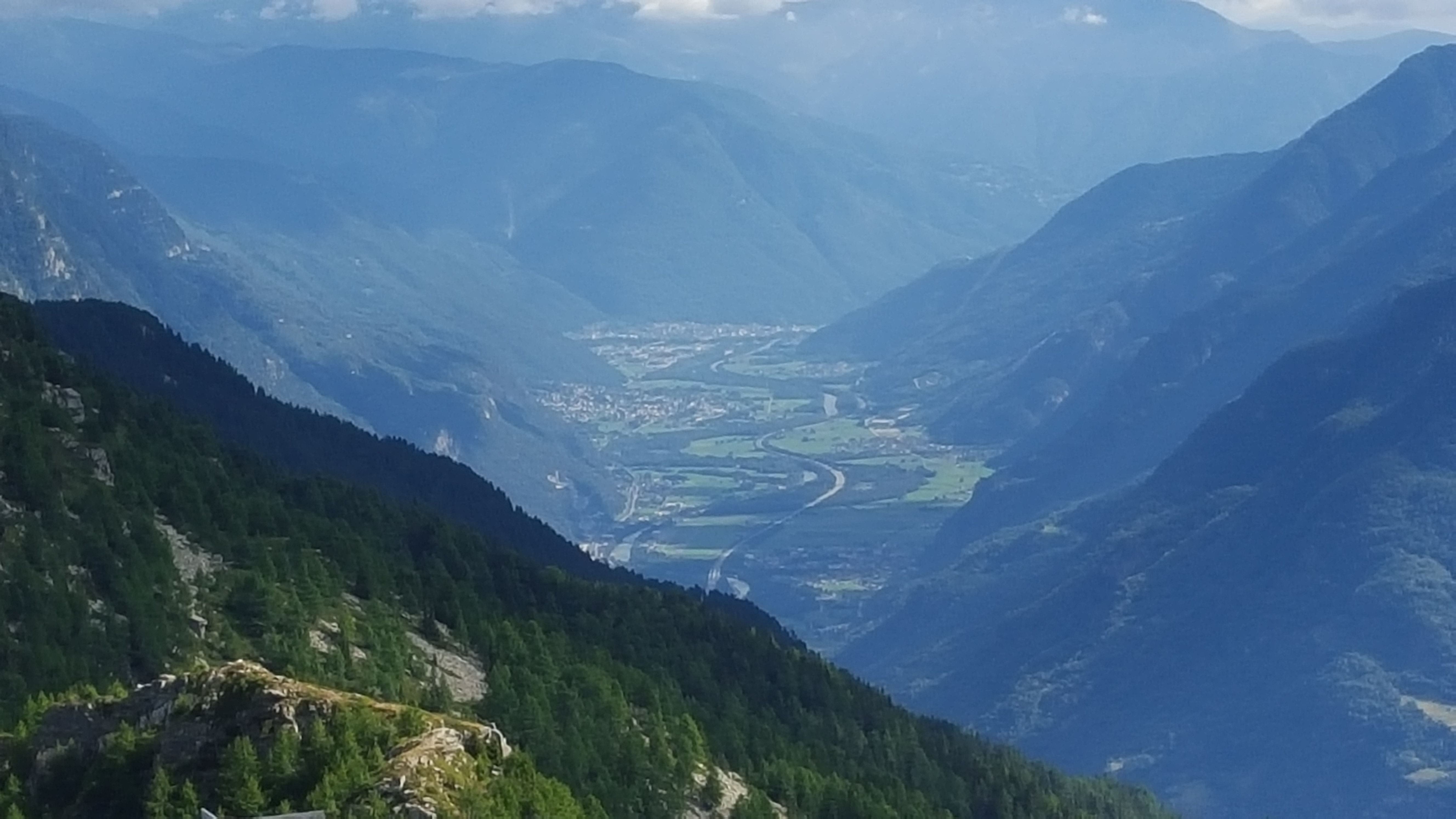 Riviera, picture taken from near Pizzo Pianché (Acquarossa, Ticino, Switzerland)